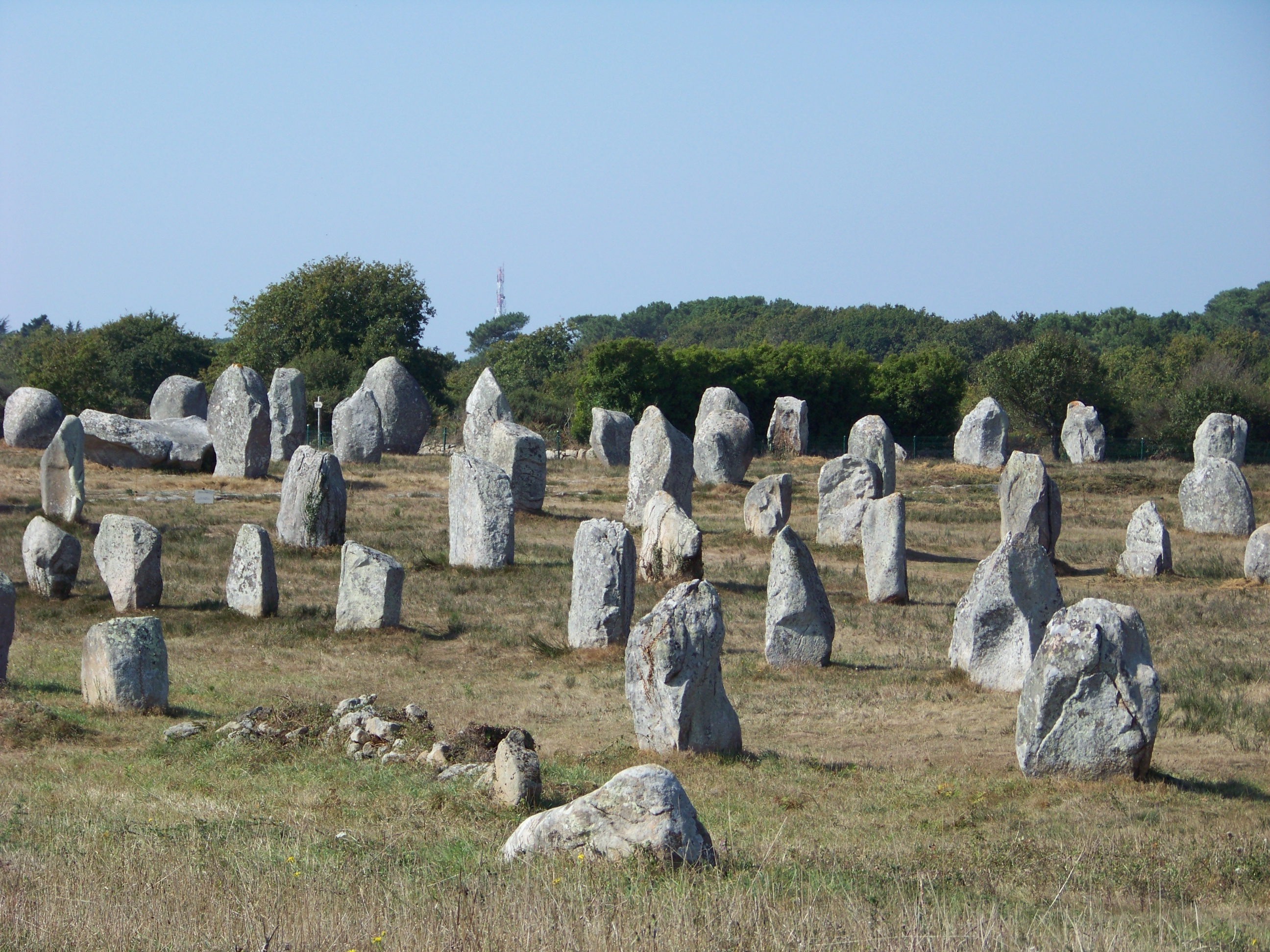 Ménec alignments, Karnag, Morbihan, Brittany .